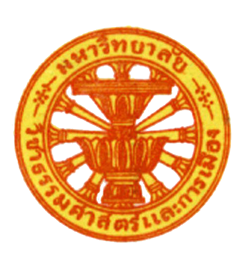 Emblem of University of Political and Moral Science (now renamed as Thammasat University), as appeared in the Royal Gazette